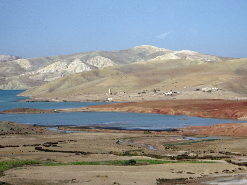 Sebu river. Morocco. Lt: Sebu upė. Marokas.